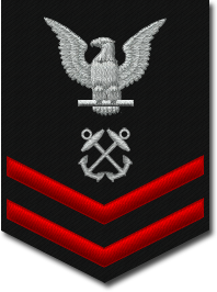 US Navy Petty Officer Second Class shoulder patch rate insignia